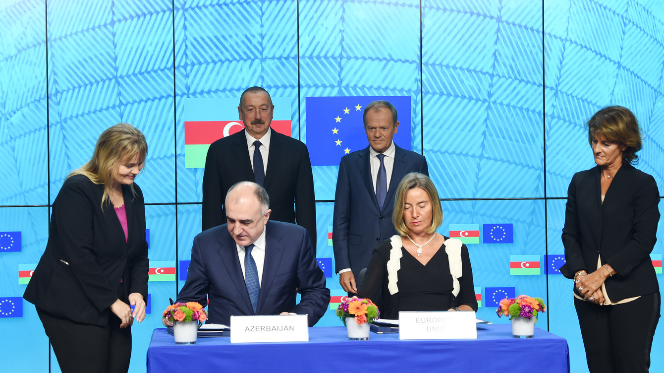 Ilham Aliyev met with President of European Council in Brussels